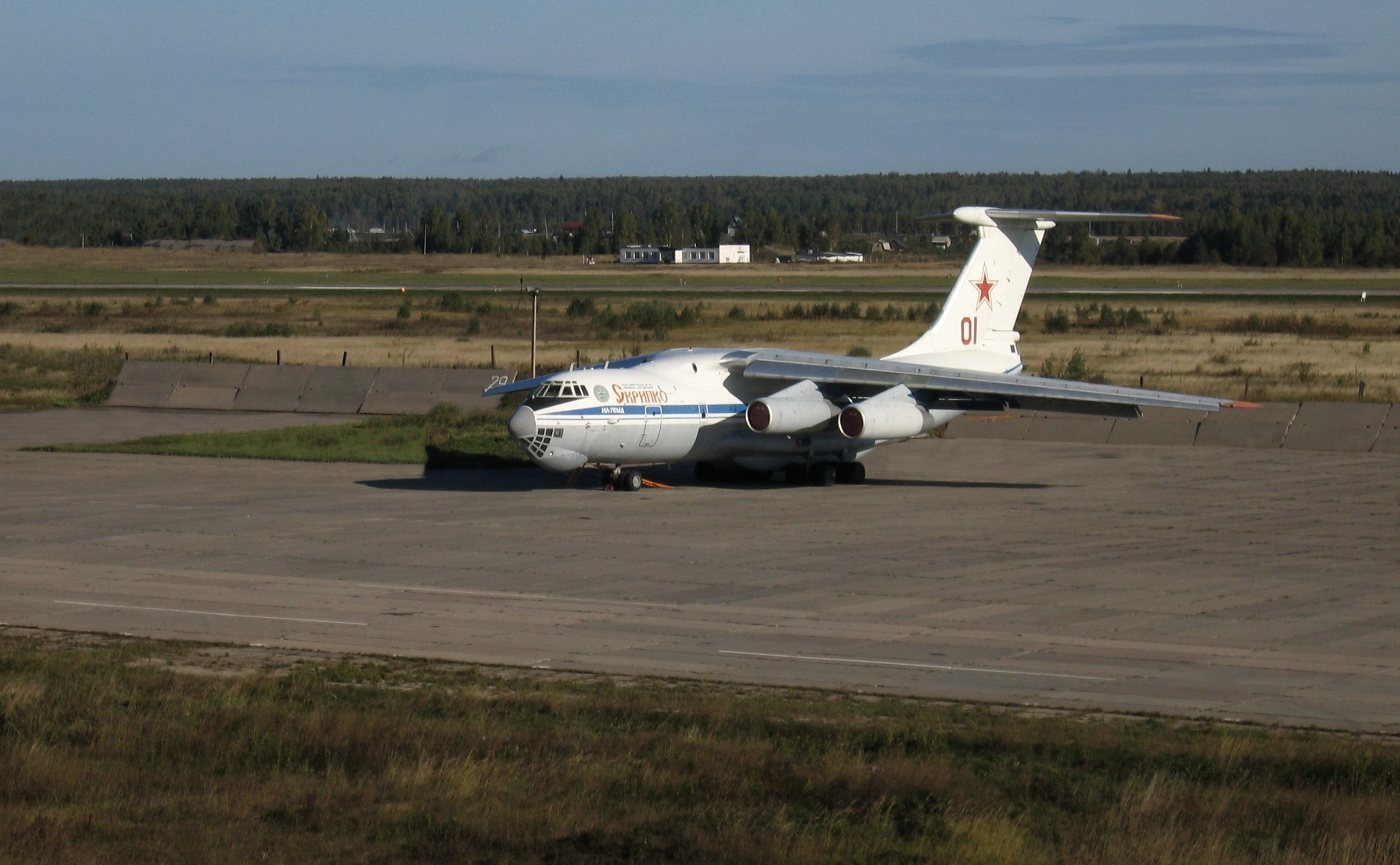 Aircraft named "Marshal of the Air Force Skripko" in the name of Marshal of the Soviet / Russian Air Force Nikolai Semenovich Skripko. Registration number: 01 Manufacturers number: 1003401024 Serial number: 76-06